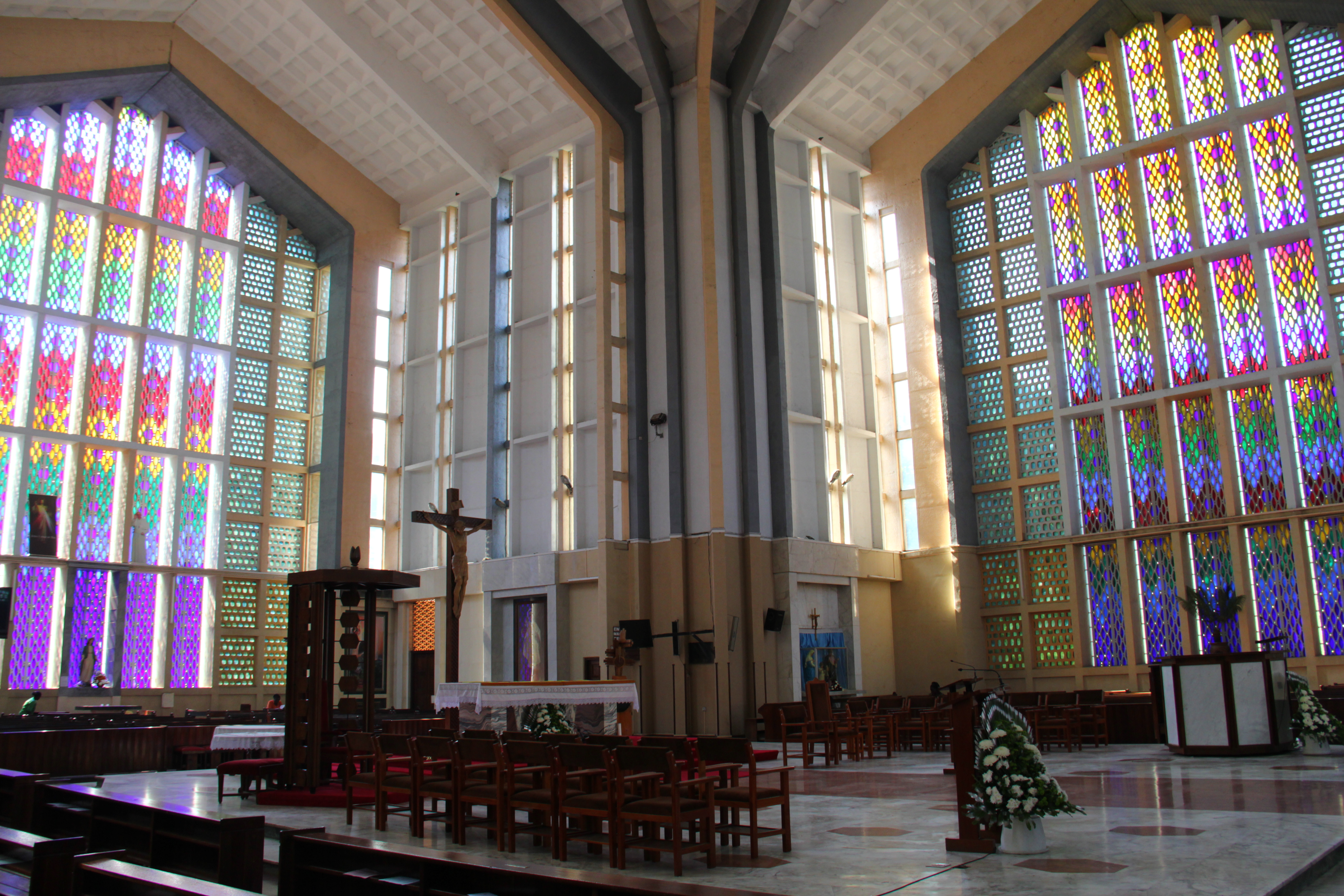 The interior of Holy Family basilica (Nairobi, Kenya)